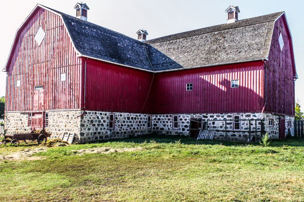 Oldtime barn dated 1907